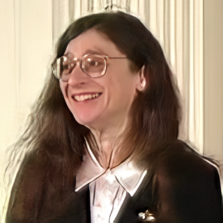 Entomologist May Berenbaum receives the National Medal of Science from U.S. President Barack Obama, Nov. 20, 2014. Award citation: "For pioneering studies on chemical coevolution and the genetic basis of insect-plant interactions, and for enthusiastic commitment to public engagement that inspires others about the wonders of science."